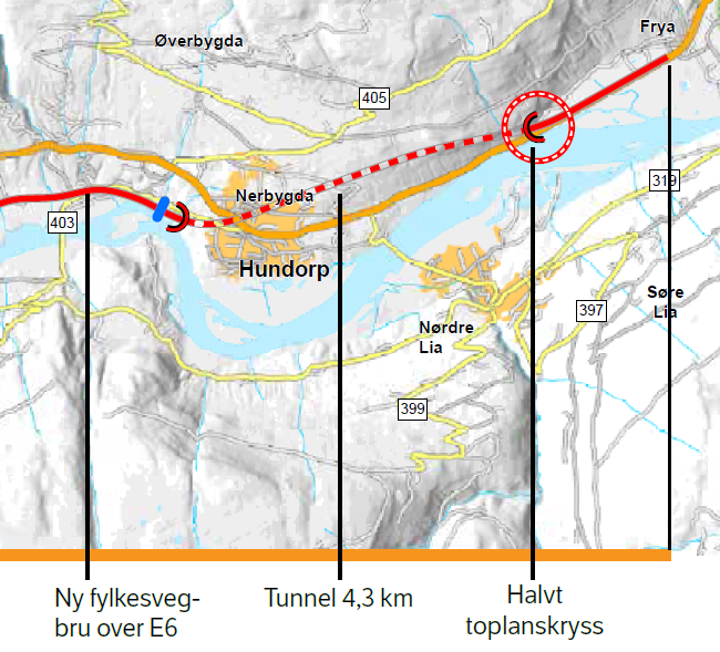 Plan for Hundorp tunnel (under construction 2015), road E6